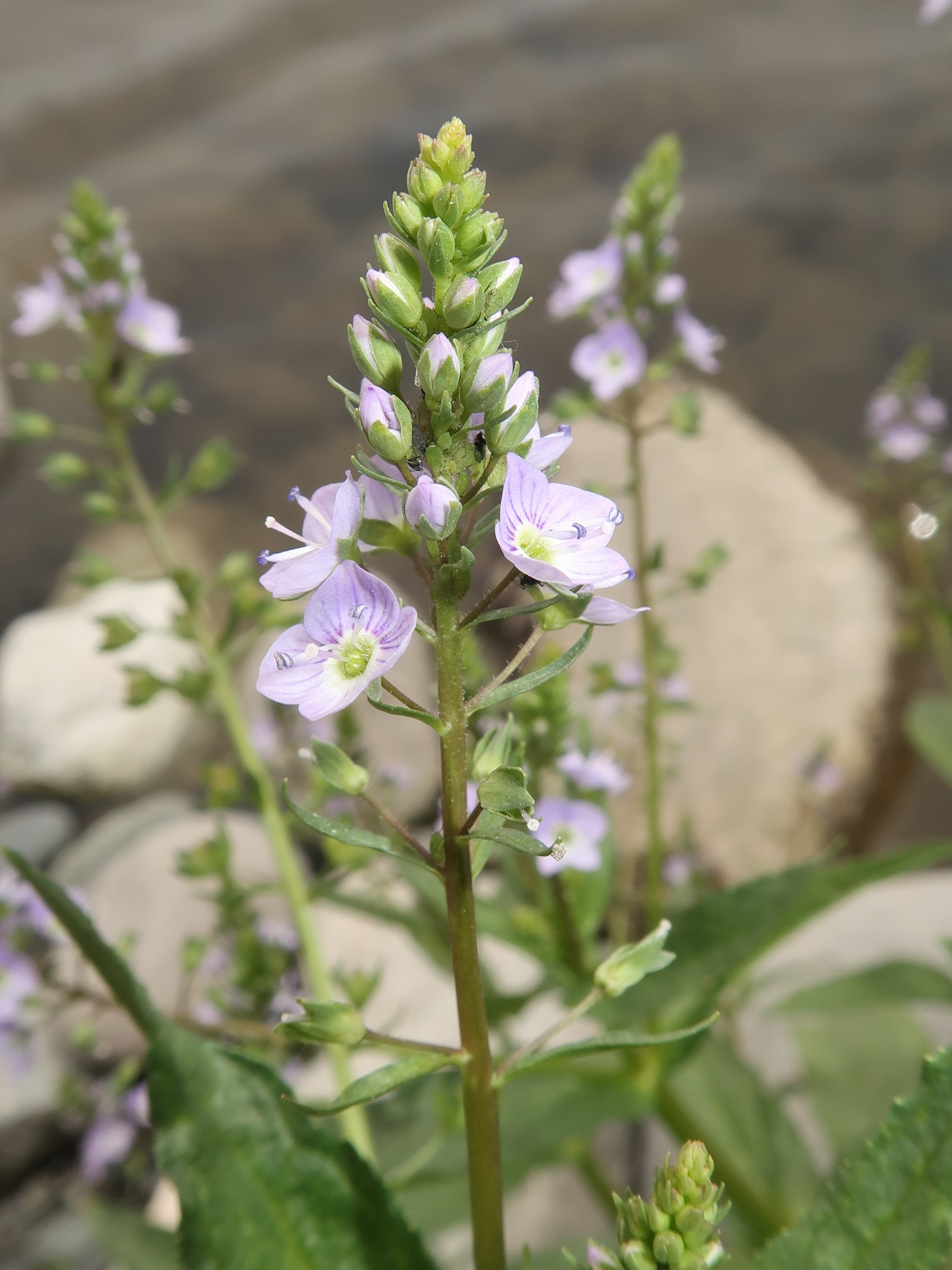 Veronica anagallis-aquatica, Kinugawa River , Tochigi pref., Japan